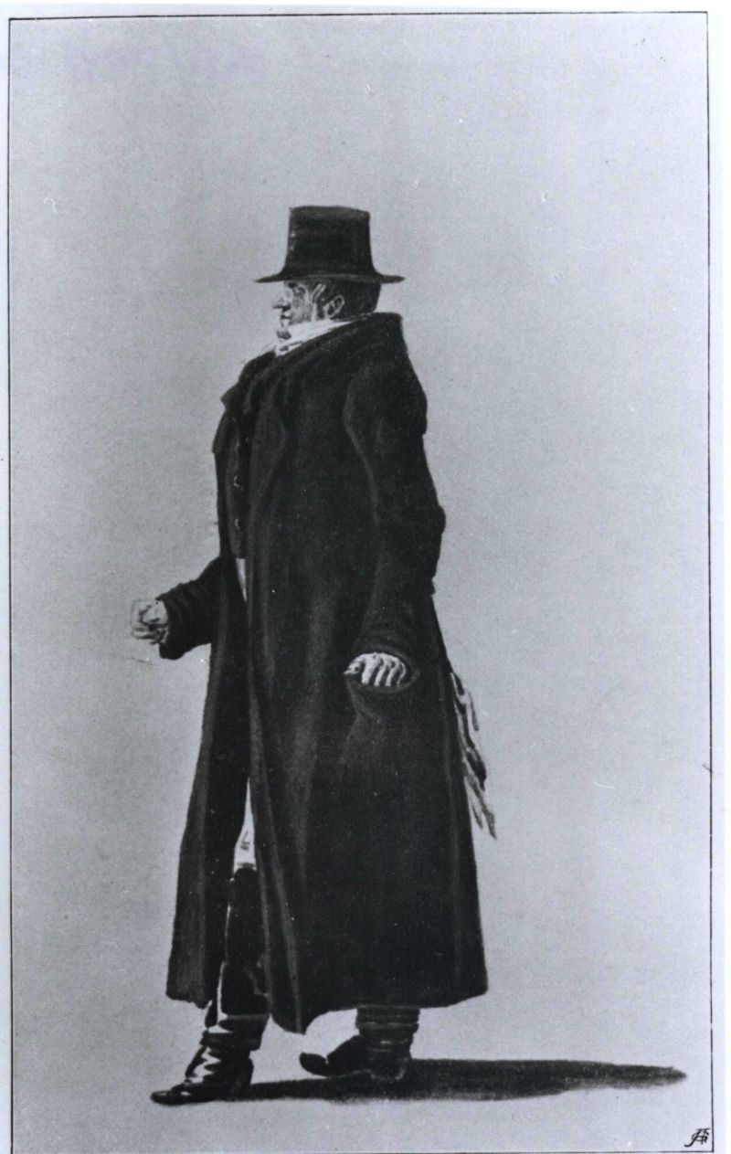 Water colour portrait by Jakub Sokolowski (Polish) c.1820